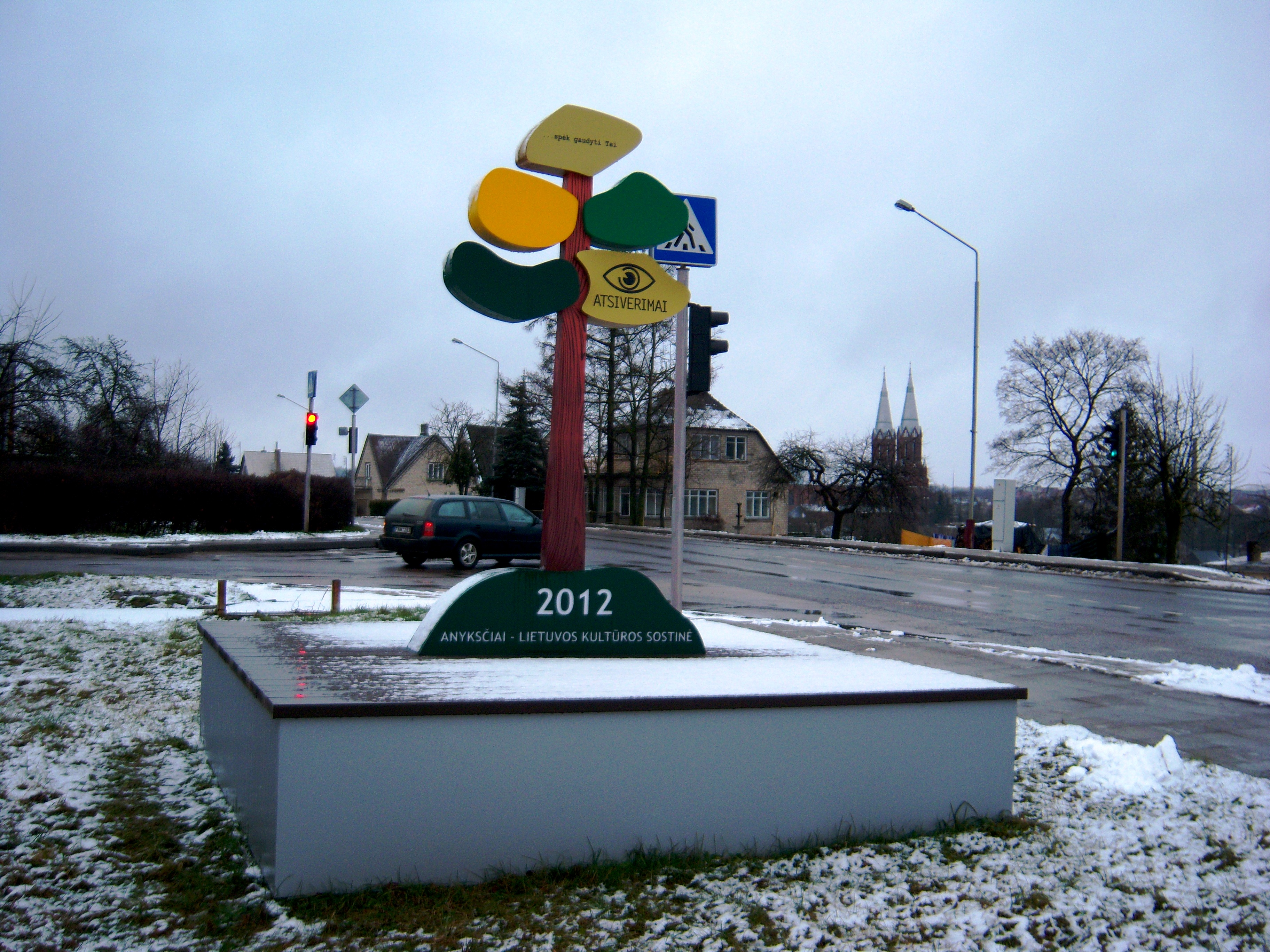 Sign of Lithuanian Capital of Culture-2012, Anykščiai